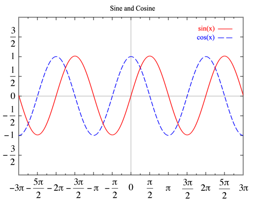 A Plot I made with Gnuplot and manually improved the labeling on.